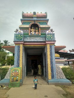 Kodiyalur agasthisvarar temple கொடியலூர் அகஸ்தீஸ்வரர் கோயில்